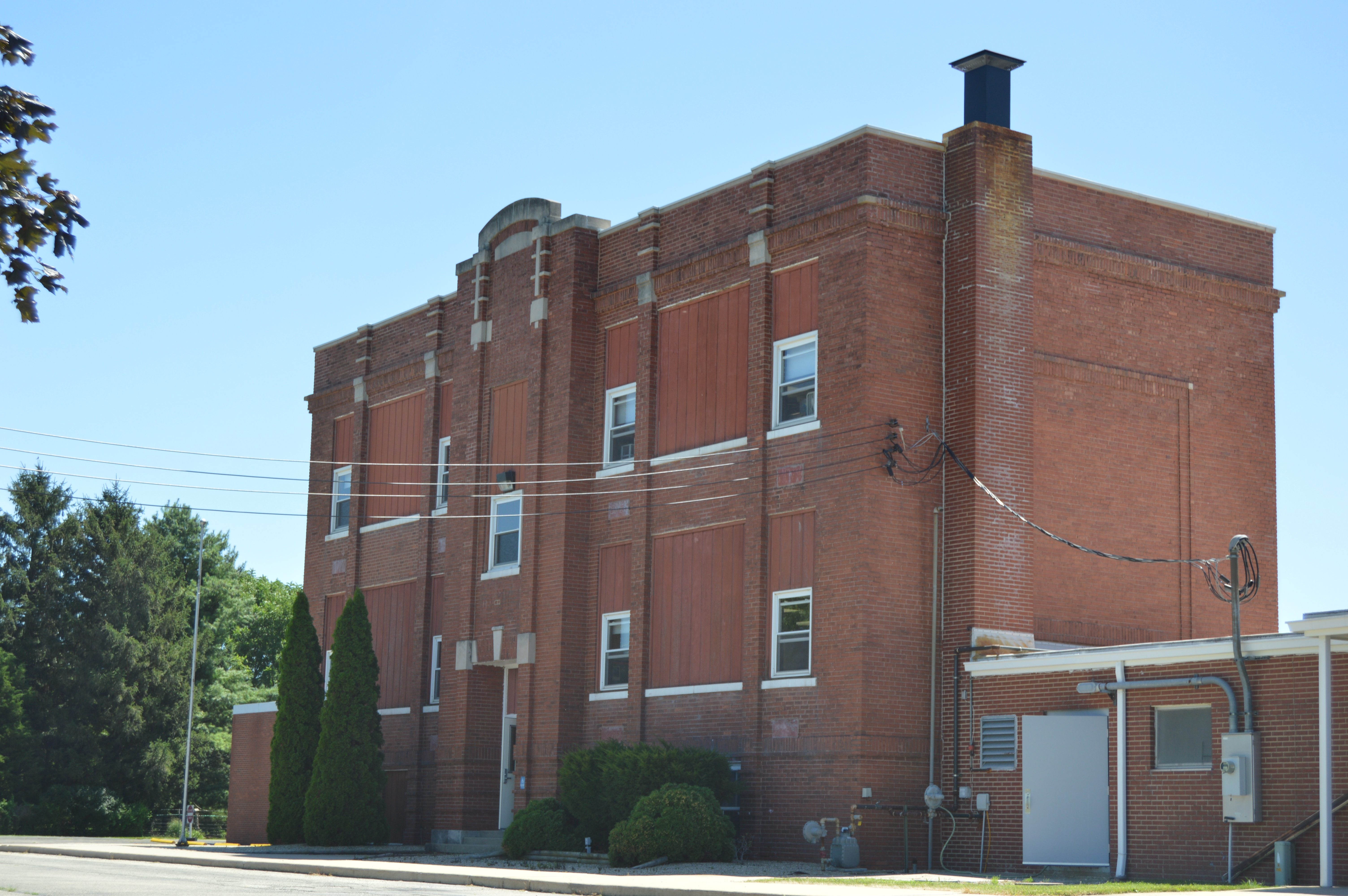 Front of the Saunemin Elementary School, located at 39 Main Street (Illinois Route 116) in Saunemin, Illinois, United States.